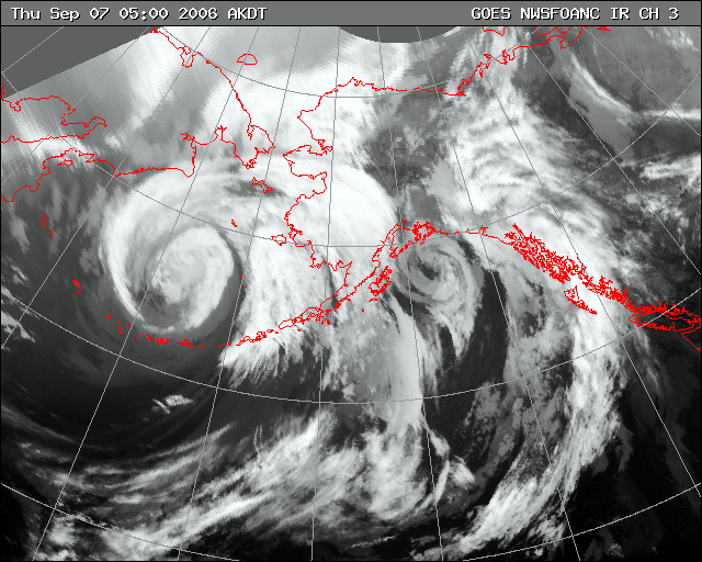 Former Typhoon 01C (Ioke) 2006-09-07 13-00Z